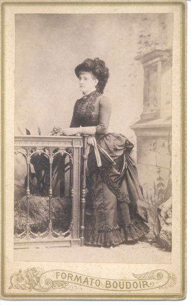 Blanche de Marconnay, morganatic wife of Prince Pasquale, Count of Bari